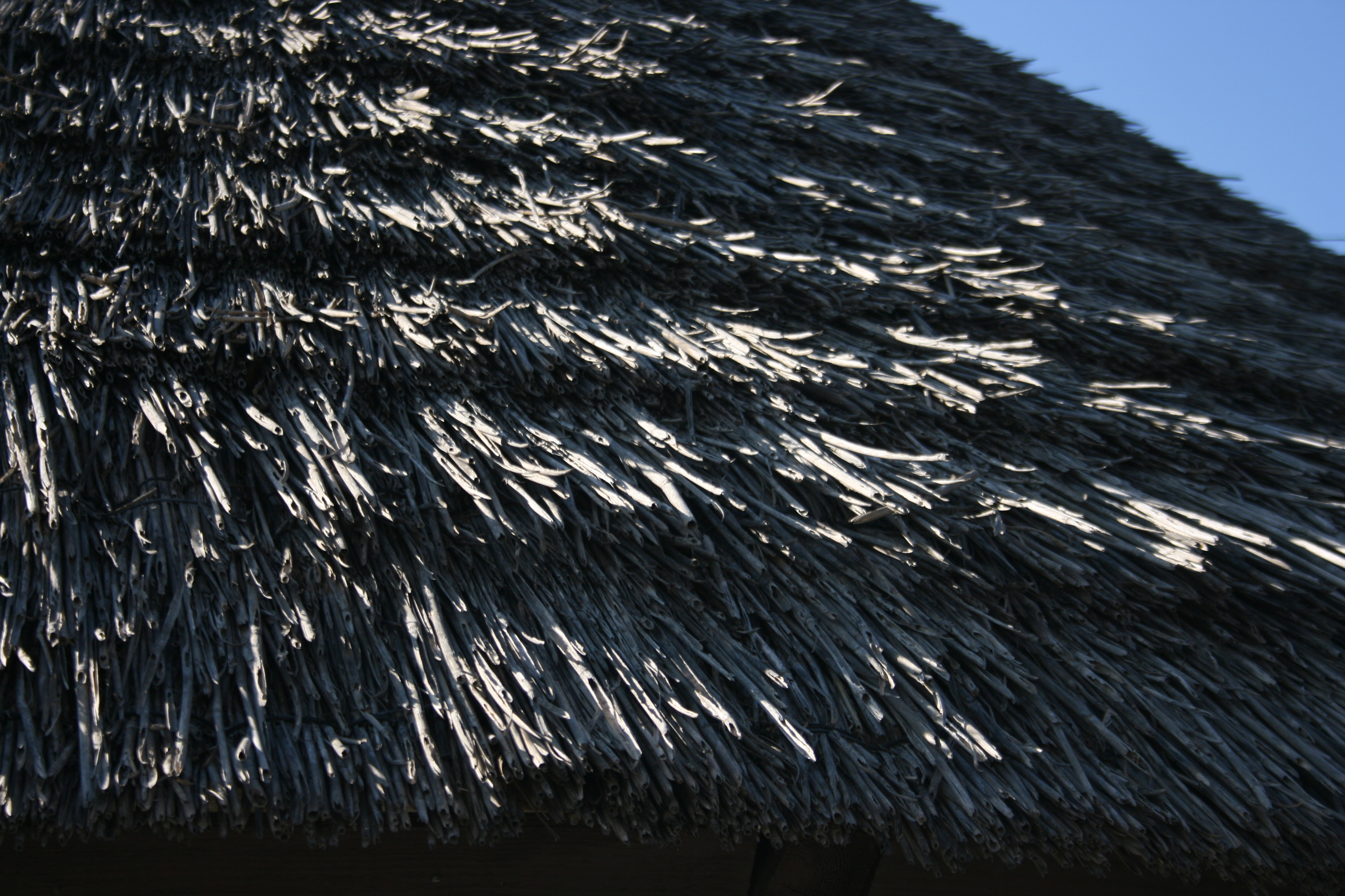 thatched roof, detail. Chapel in Salin de Giraud, Camargue, France